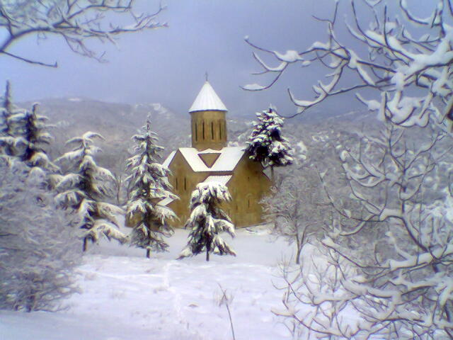 Betania Monastery in snow